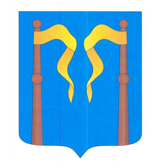 Coat of arms of Babinavičy